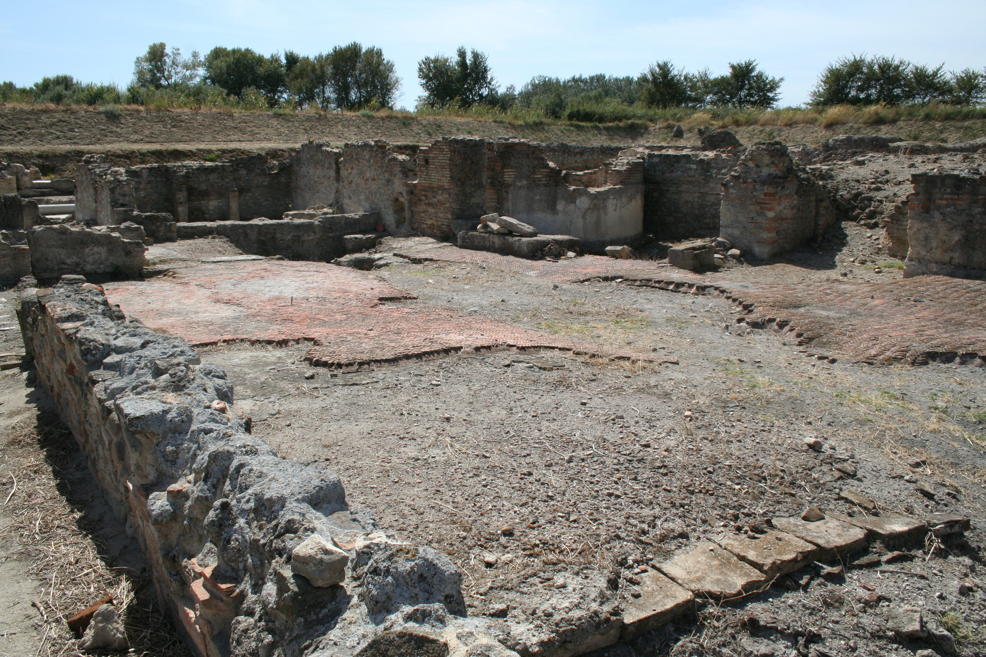 Remains of excavated building walls in the archeological park of Sybaris. The later cities of Thurii and Copia were partially superimposed over the older settlement. The author and uploader have not been able to identify to which settlement these remains belong.